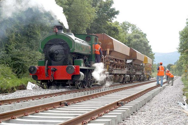 RPSI former Londonderry Port and Harbour Commissioners 0-6-0ST tank locomotive no. 3 R H Smyth working a NIR ballast train near Meadowbank Farm Crossing, Co. Down, Northern Ireland